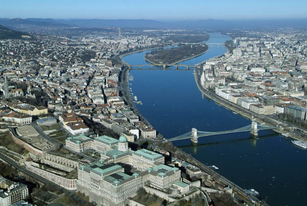 Duna panorama, Hungary, aerial photography